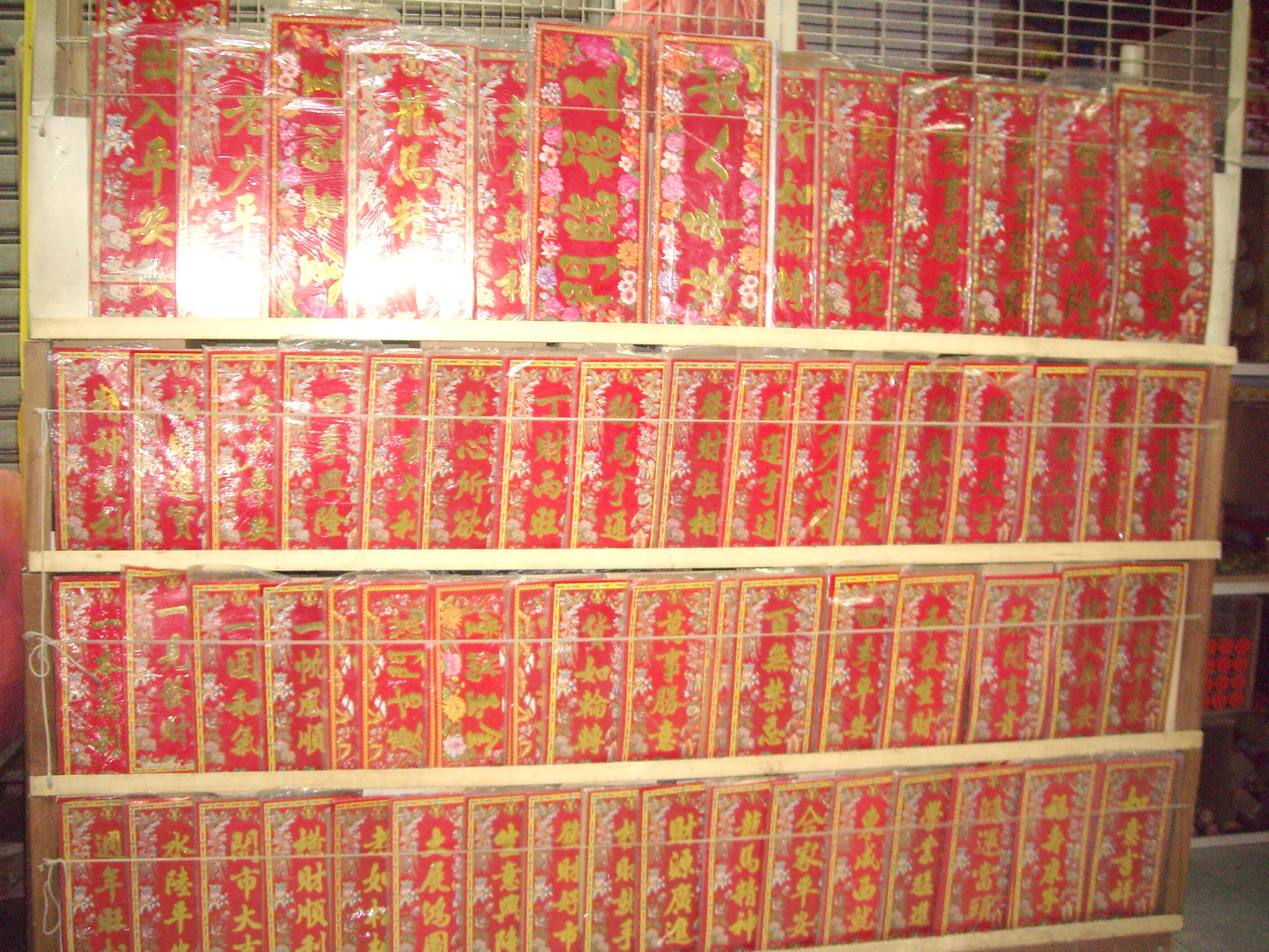 printed chun tie